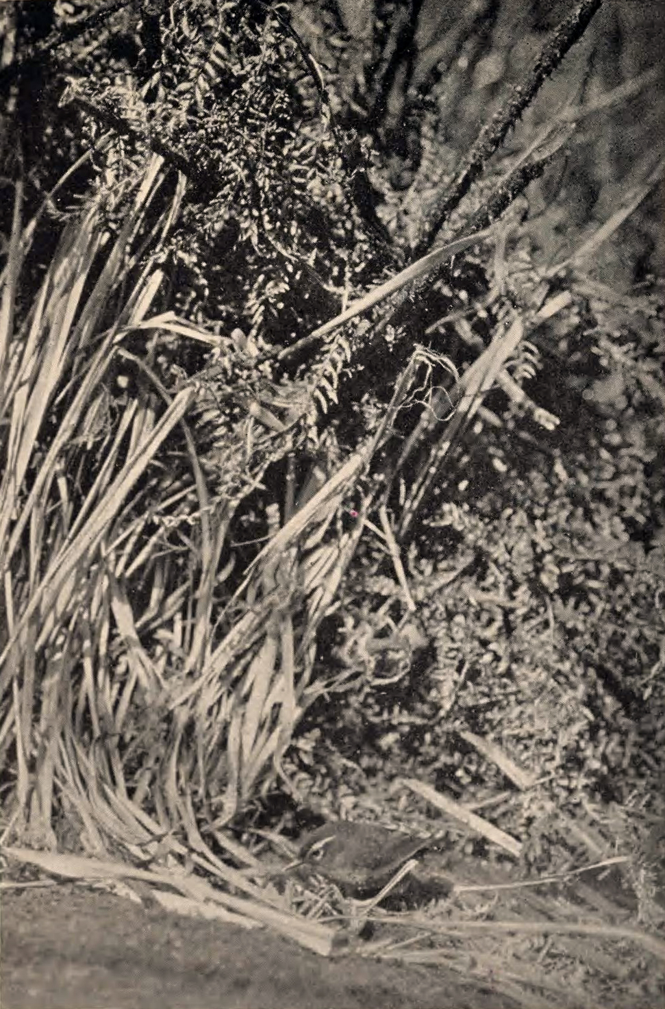 Photo (taken in 1911) of the South Island Bush Wren (Xenicus longipes longipes). From Bird Life on Island and Shore (1925) by Herbert Guthrie-Smith (1862–1940).